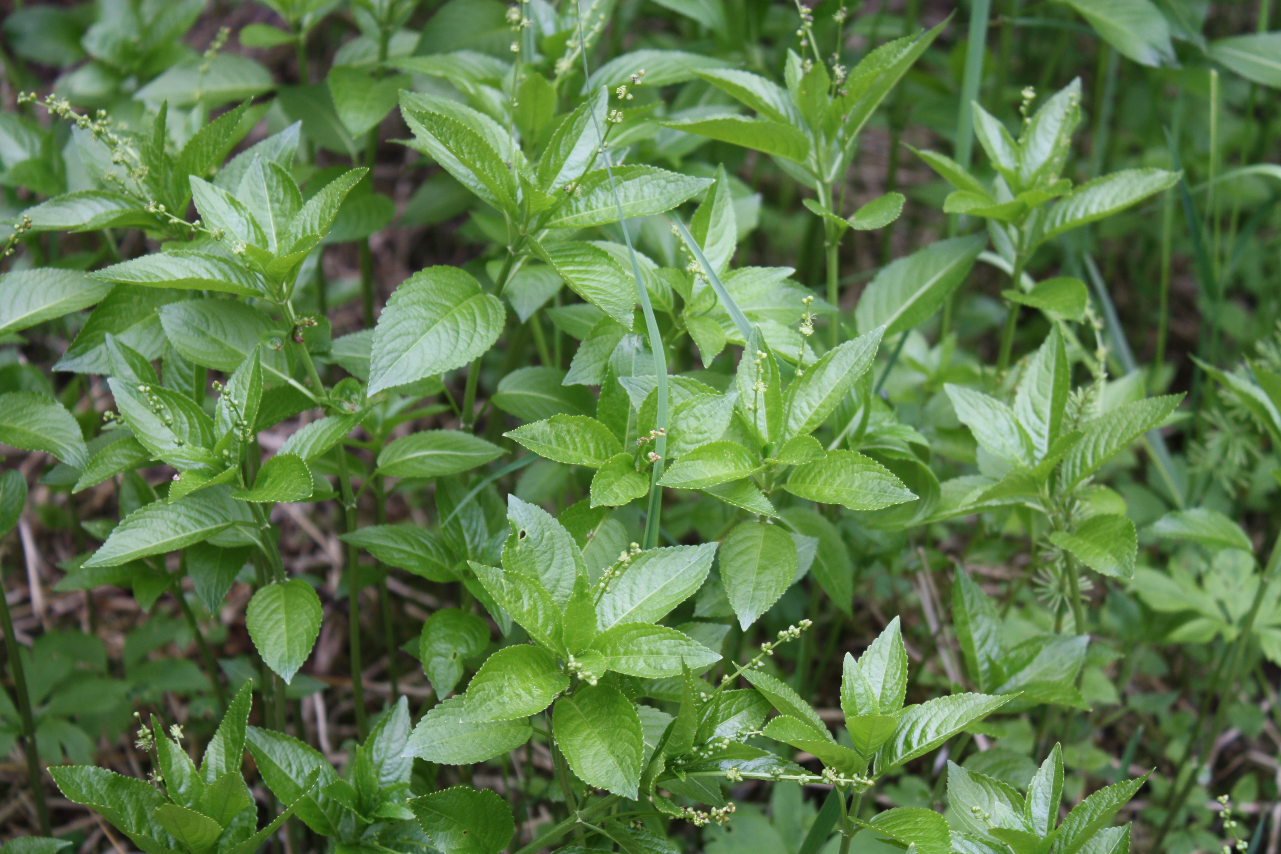 Mercurialis perennis - Lemmenlaakso Nature Reserve, Järvenpää, Finland